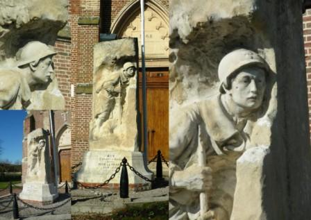 A montage of photographs of the monument aux morts in Arry in the Somme region of France.This monument aux morts features a sculpture by Louis-Henri Leclabart which was completed in 1921. A soldier stands stooped in his trench. The monument was erected by the Amiens contractors Grujon and Galland and stands in front of the church.